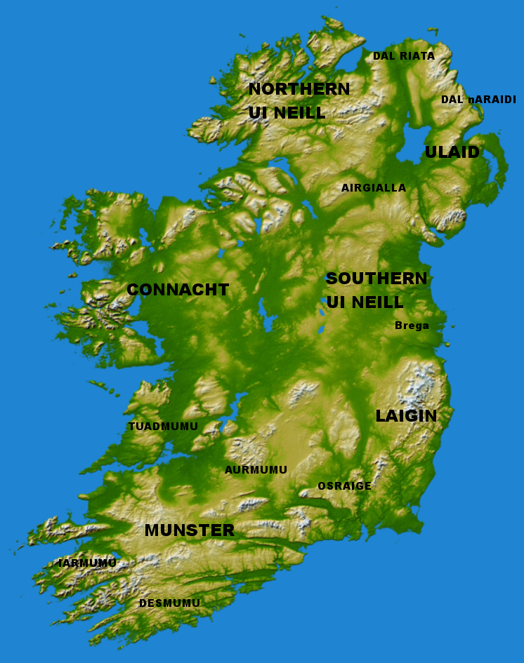 Modified version of Image:Irishwiki.png. Created by NASA, a US Government agency.